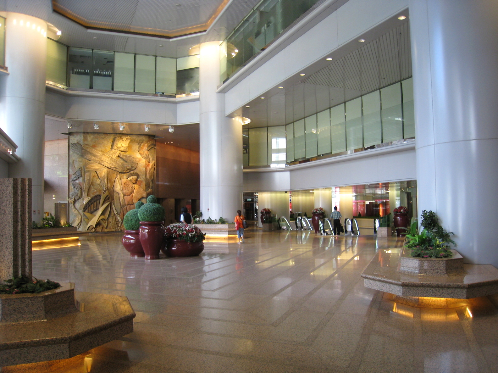 HK Lippo Centre Lobby 力寶中心